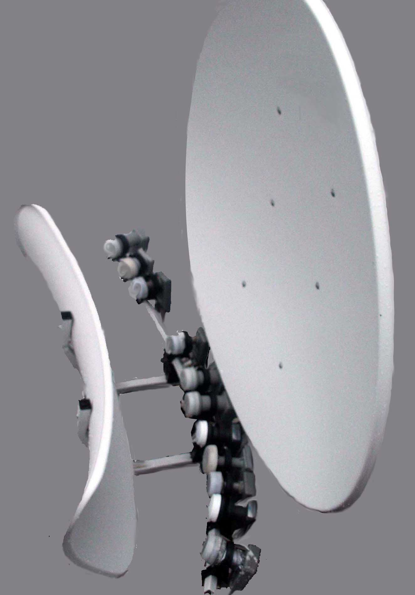 antenne toroïdale 90cm satellite dish, WaveFrontier Toroidal T55 T90